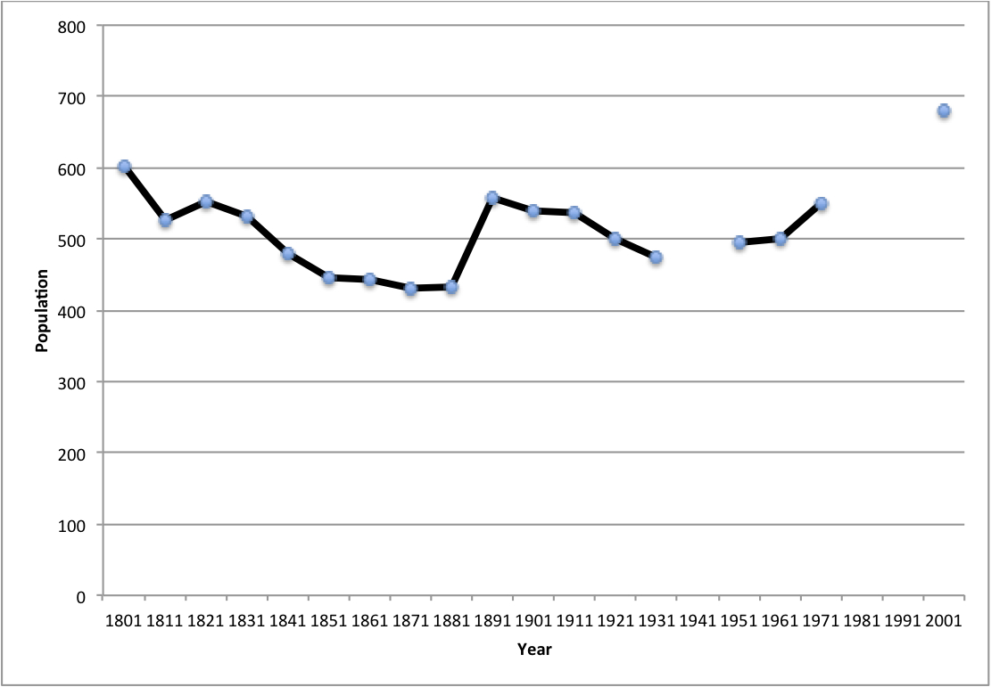 Graph showing population of Kinlet, Shropshire between 1801 and 2001